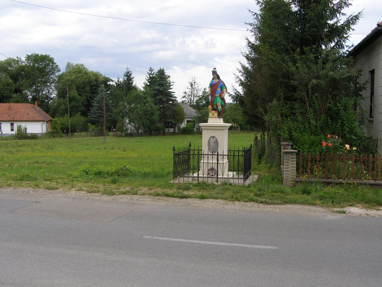 The Statue of St. Florian in Alsószölnök